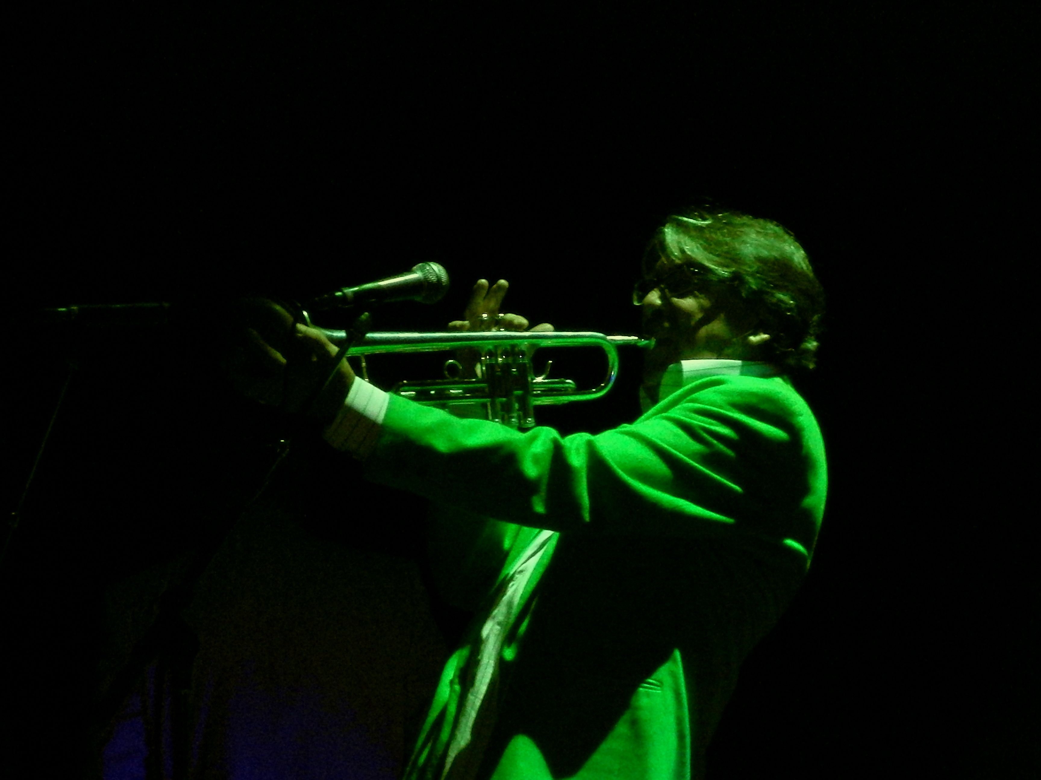 Supertramp in concert at the Palacio de Deportes (Sports Palace), Madrid, Spain. Here is trumpeter Lee Thornburg.